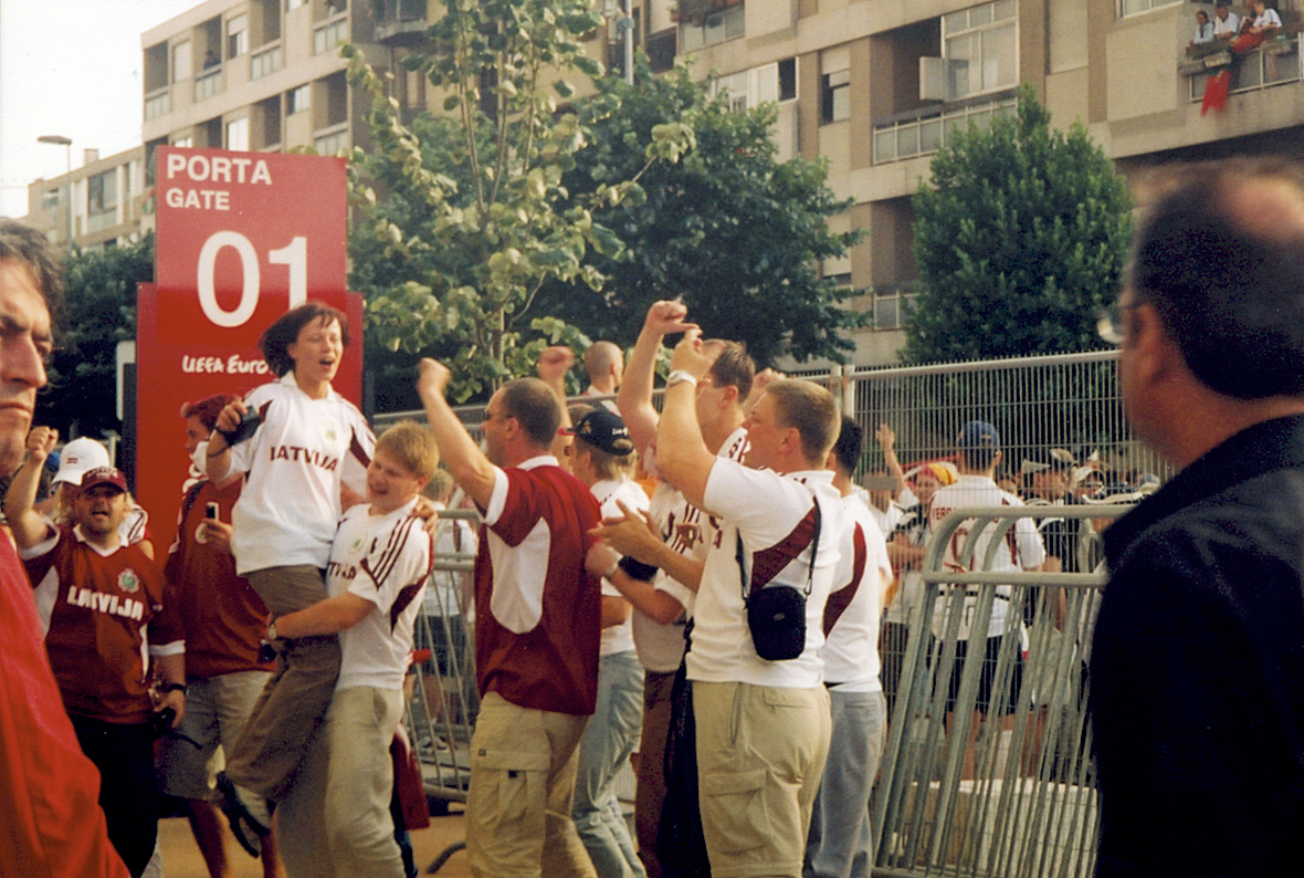 Latvian football fans near Estádio do Bessa in Porto. The occasion is the Latvia vs. Germany football match, 19th of June 2004.